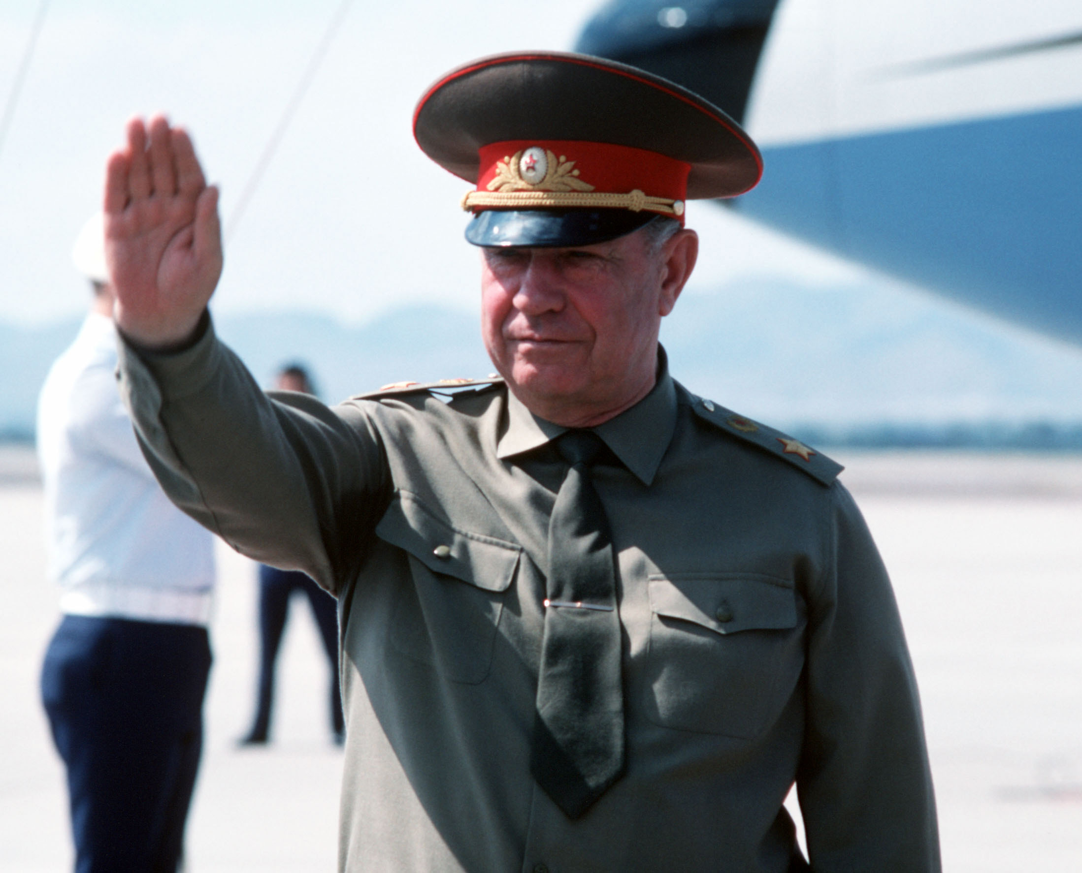 Soviet Defense Minister Dmitri Yazov on a visit to the United States in 1989.